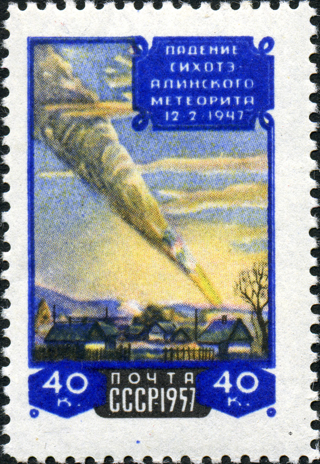 On November 20, 1957 the Soviet Union issued a stamp to commemorate the 10th anniversary of the Sikhote-Alin meteorite shower. It reproduces a painting by P. I. Medvedev.